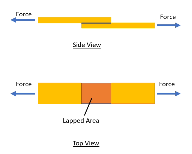 The image of the Implant Resistance Welded Lap Shear Strength Test Specimen is based on the written description from the article "Strength and failure modes in resistance welded thermoplastic composite joints: Effect of fiber-matrix adhesion and fiber orientation" written by H. Shi et al.